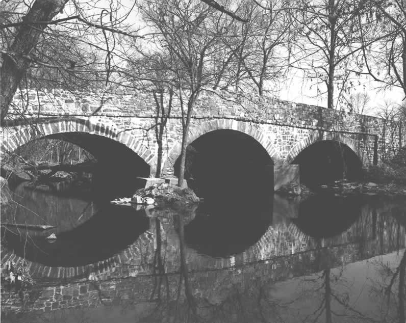 Bridge in Upper Frederick Township which carries Legislative Route 46007, Fagleysville Road, over Swamp Creek in Upper Frederick Township, Montgomery County, Pennsylvania, United States. Built in 1854, the bridge is listed on the National Register of Historic Places.